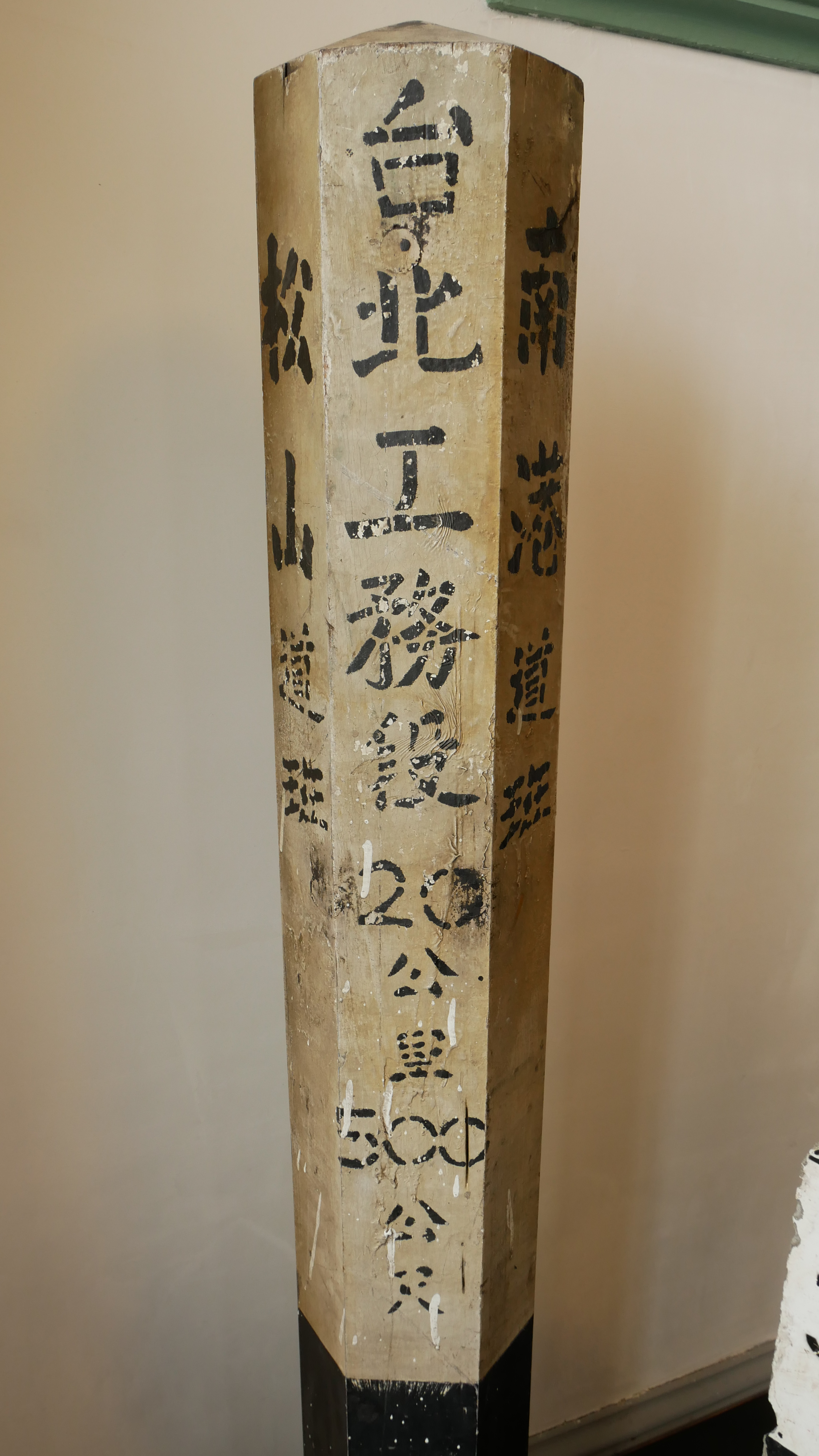 台北工務段南港道班與松山道班界標，臺北市大同區延平次分區玉泉里